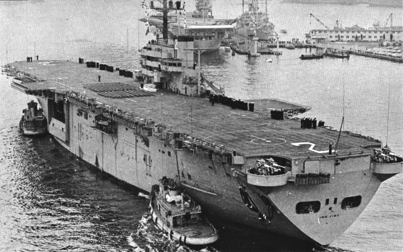 The U.S. Navy amphibious assault ship USS Iwo Jima (LPH-2). Iwo Jima was the first ship of her type built from the keel up. She was built at the Puget Sound Naval Shipyard, Washington (USA), and commissioned on 26 August 1961.